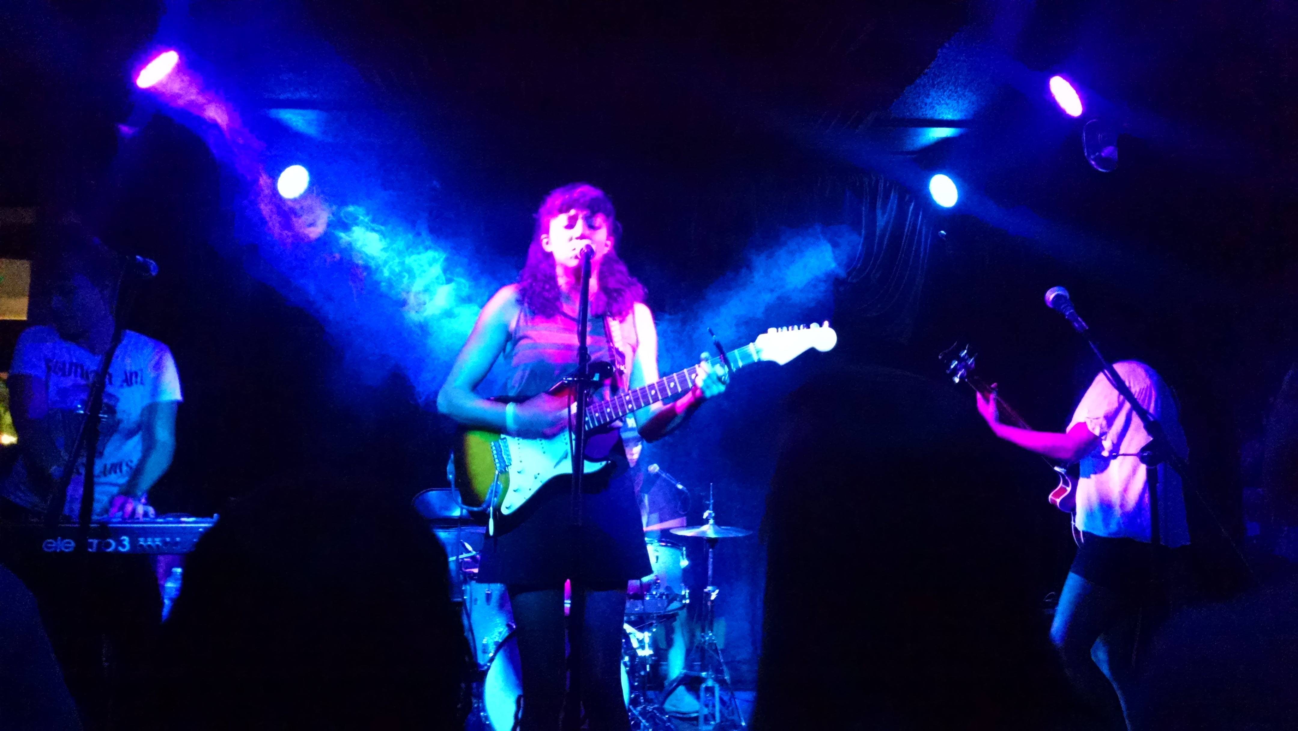 (left to right) Alice Sandahl, Shana Cleveland, Lena Simon